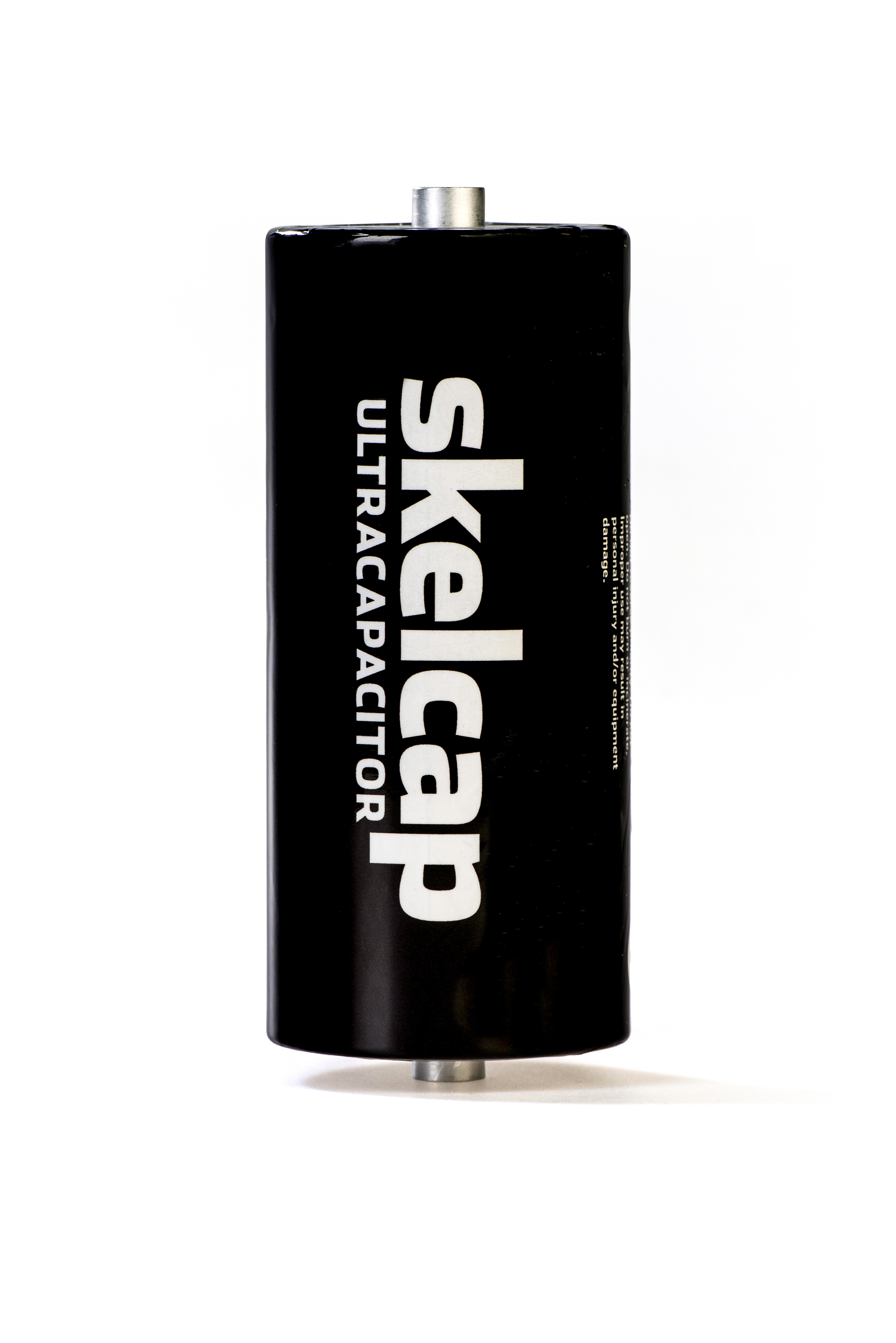 Ultracapacitator by Skeleton Technologies.